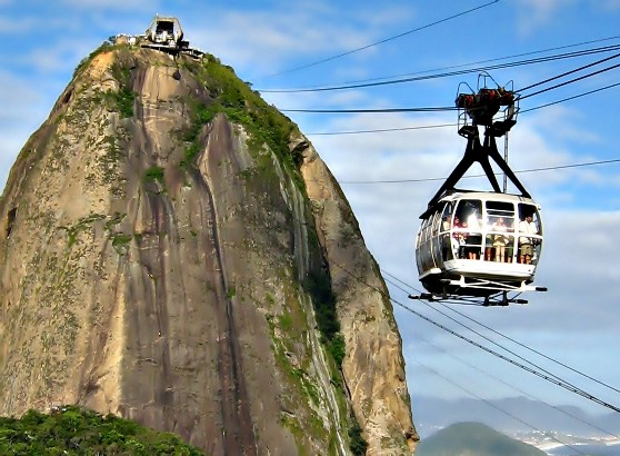 Sugar Loaf cable car